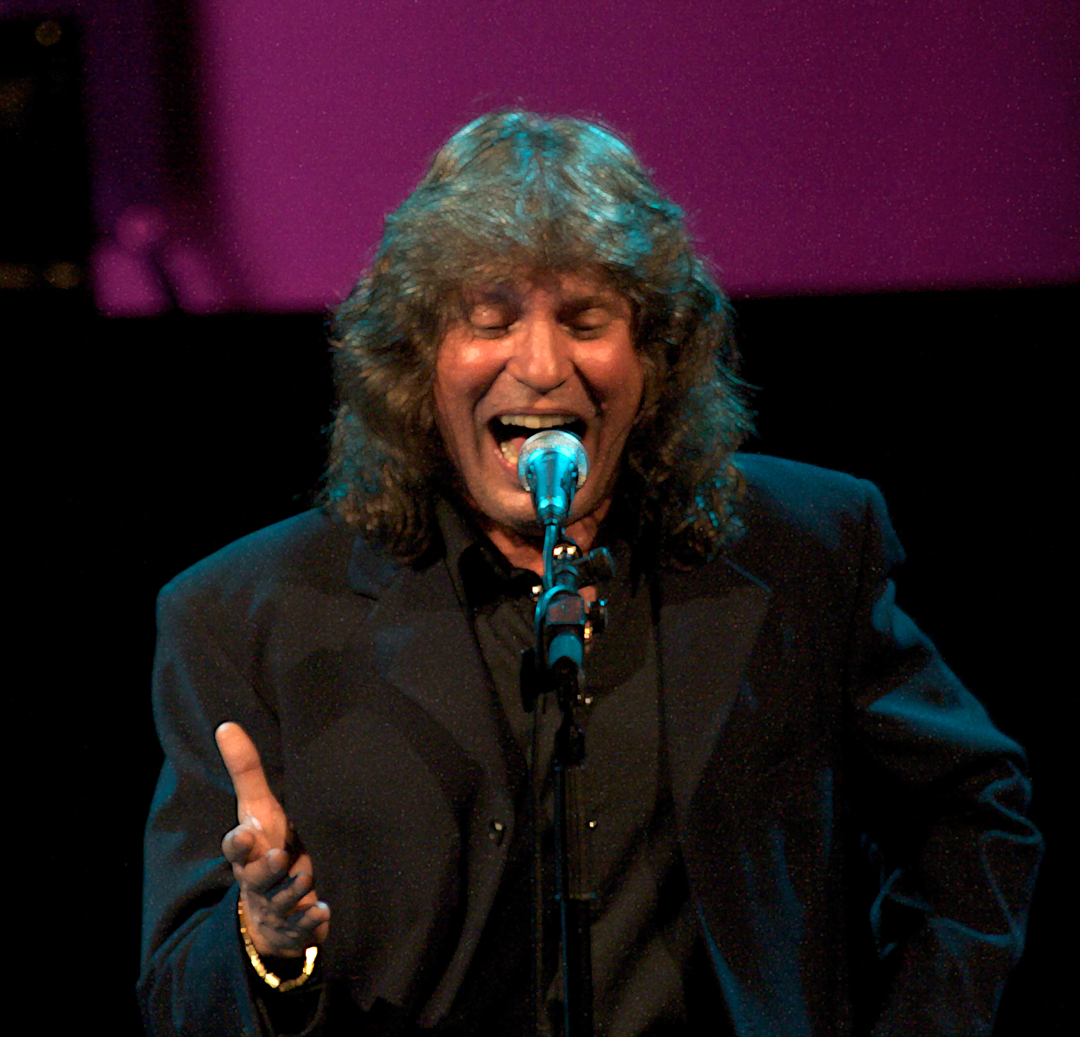 José Mercé in concert within the Palace of the Catalan music, on April 26th, 2008